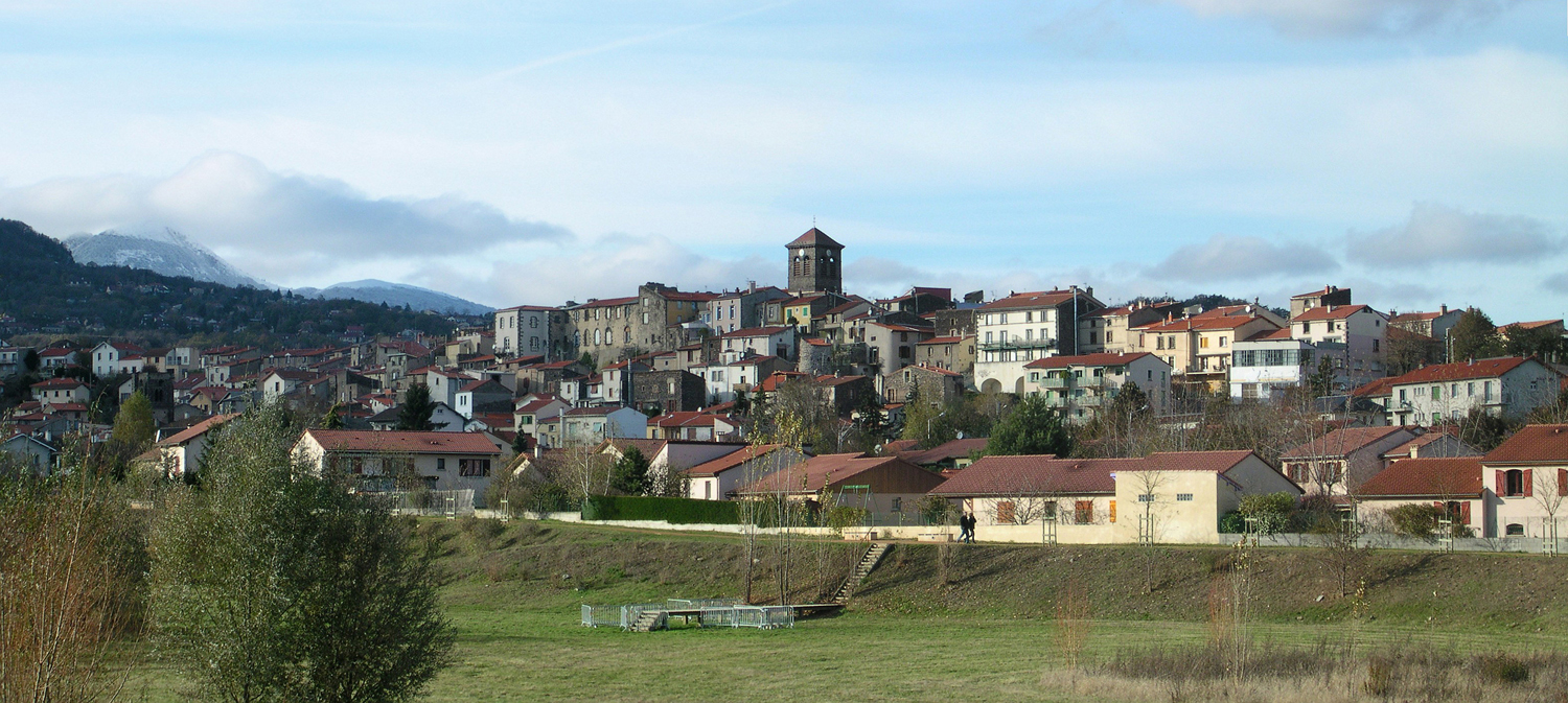 Français la petite ville de Beaumont dans la banlieu de Clermont-Ferrand (Auvergne en France). Photographie composée de deux clichés assemblés en utilisant Panorama makers. Photographies prises par Romary le 26 novembre 2005 English Small town of Beaumont in the suburn of Clermont-Ferrand. (Auvergne in France). The picture was made with two photographies using Panorama Maker software. Pictures taken by Romary Novembre, 26th 2005